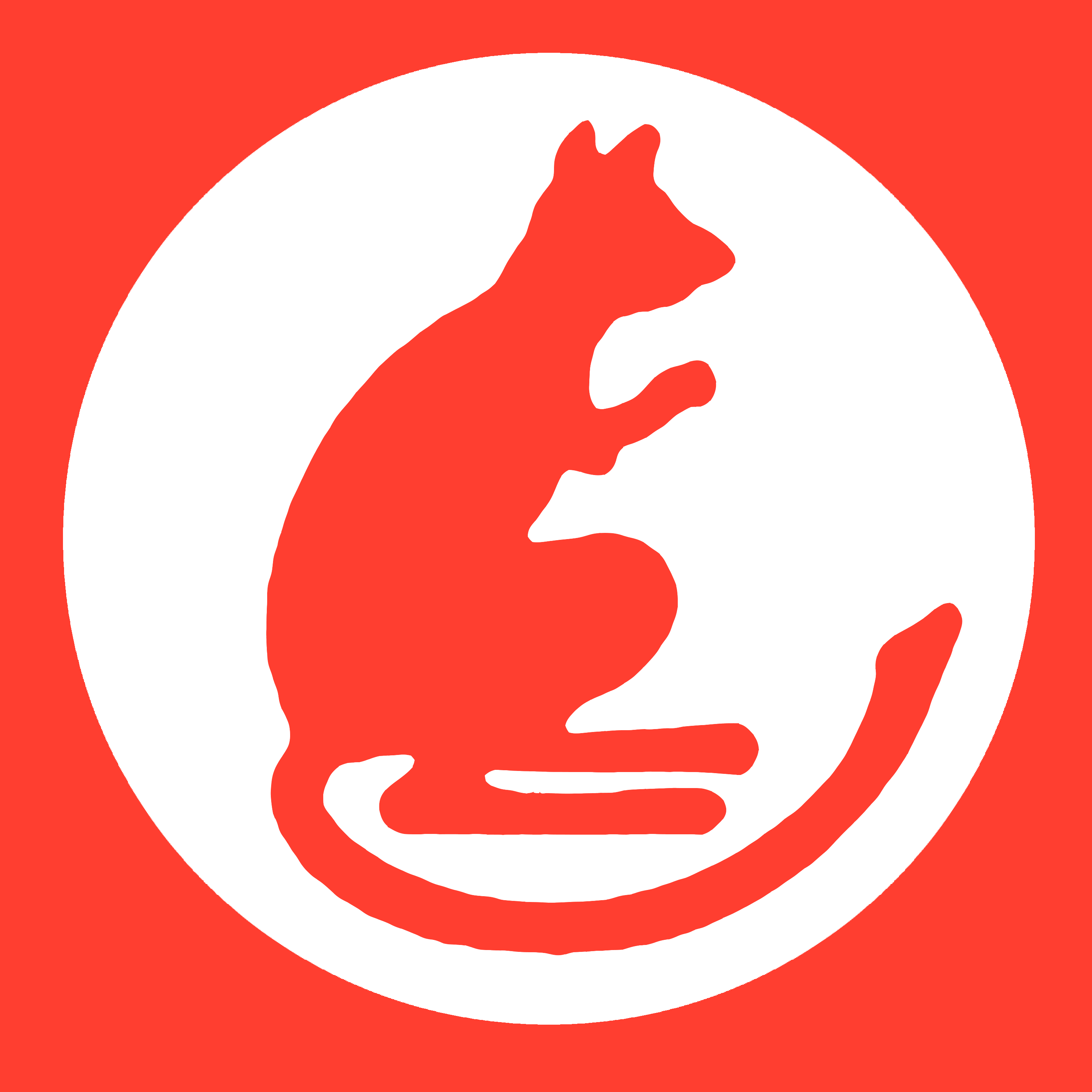 The divisional insignia of the British Army's 7th Armoured Division a.k.a the Desert Rats from 1944 onward.